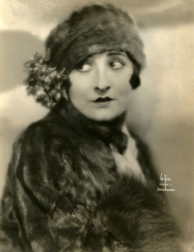 Portrait of American actress Diana Miller (1902–1927) by Albert Witzel